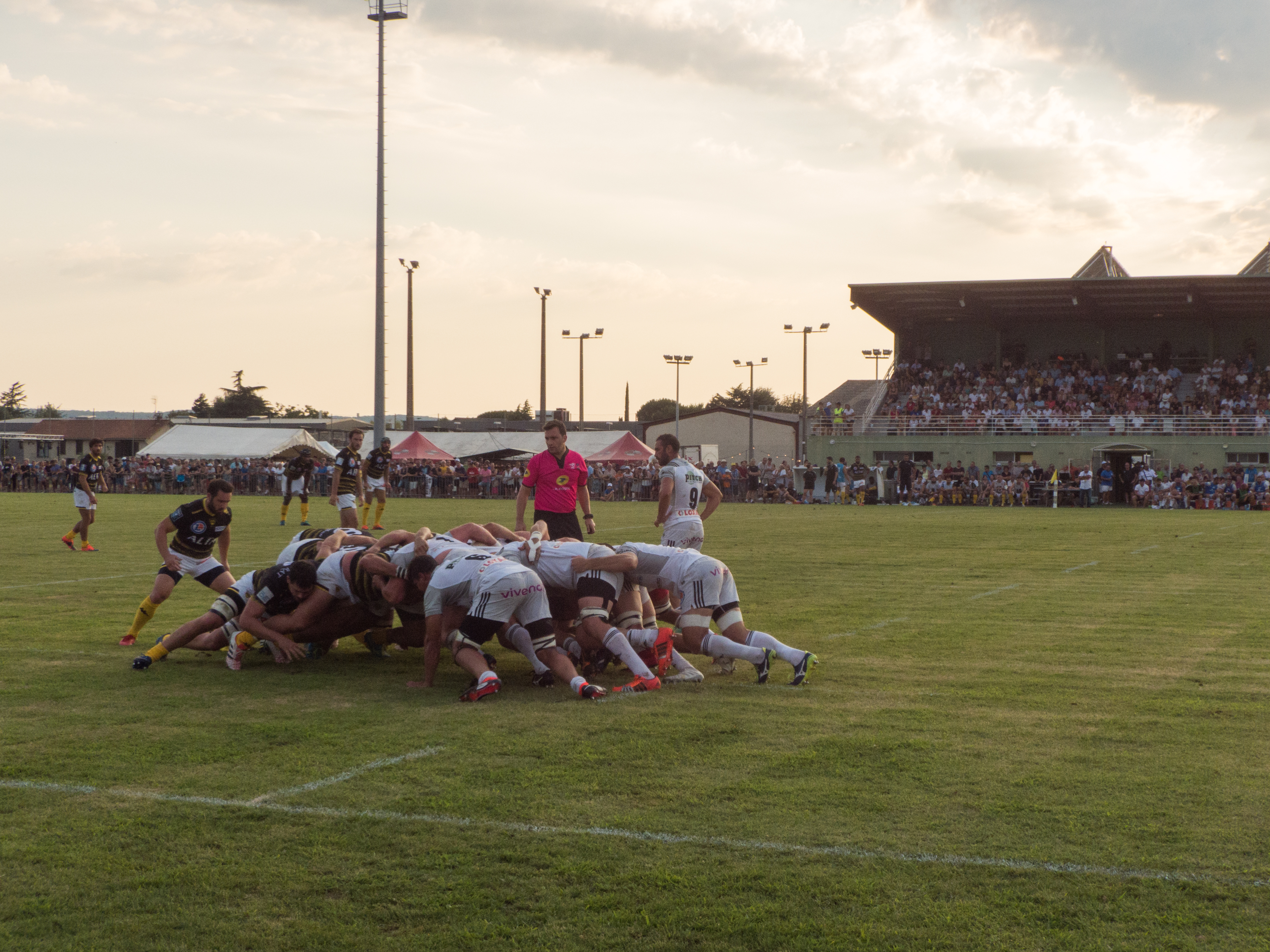 rugby union friendly match — 3 August 2018, Q55949327. Match between: CA Brive — Stade Montois